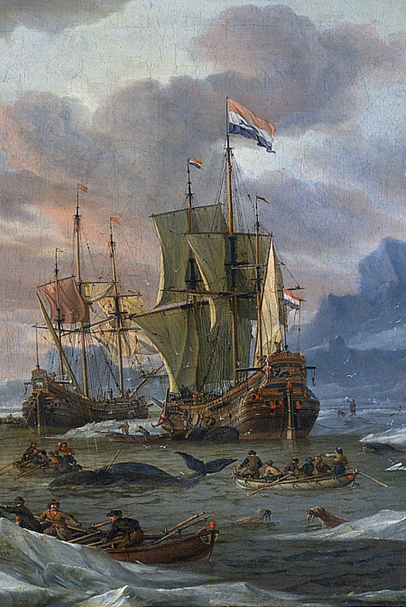 Abraham Storck's painting showing fishing near the Svalbard in the 17th century